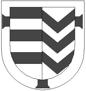 Arms of Philippus Vaecx alias Foxius, commandeur van de commanderie van Maastricht, 1628-1652,the insignia of the Order of Saint-Anthony are shown in the bordure of the shield. The colours are not known to me.The arms are depicted in an etched portrait.